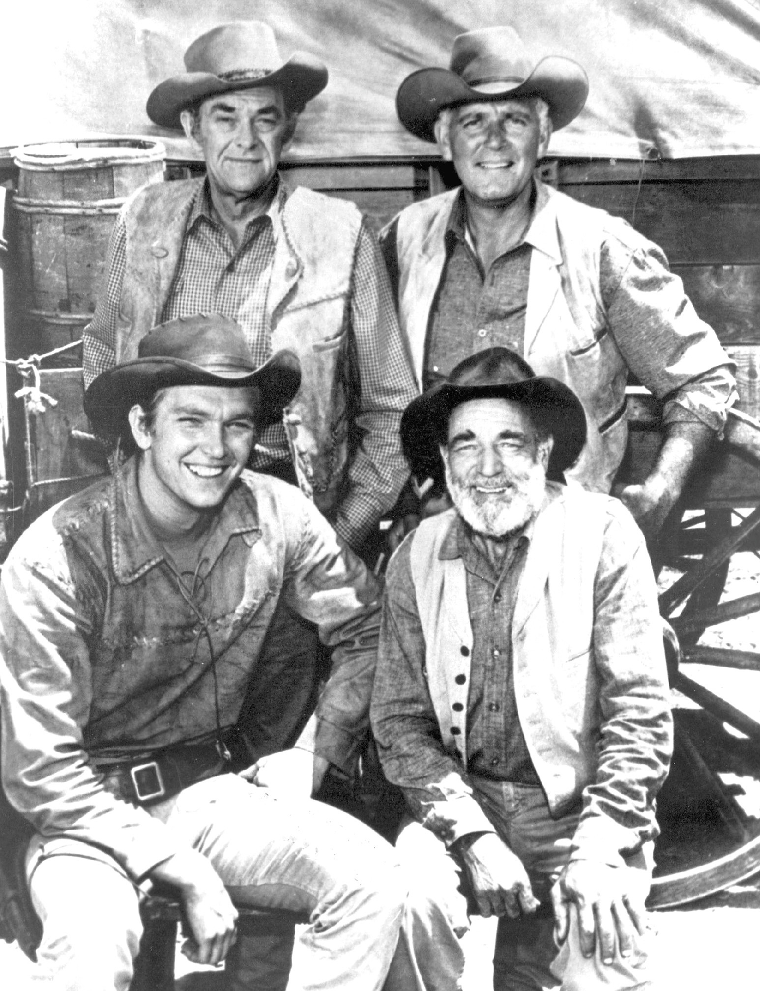 Photo of the main cast of the western television series Wagon Train. Seated from left: Scott Miller, Frank McGrath. Standing from left: John McIntyre, Terry Wilson. The item has no copyright markings on it as can be seen in the links above.